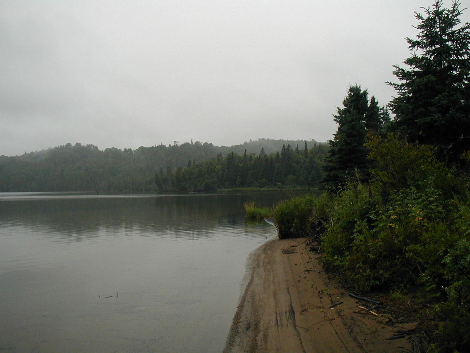 The beach just south of the mouth of Washington Creek — Isle Royale National Park. View facing roughly north. Photo I took in August 2001.